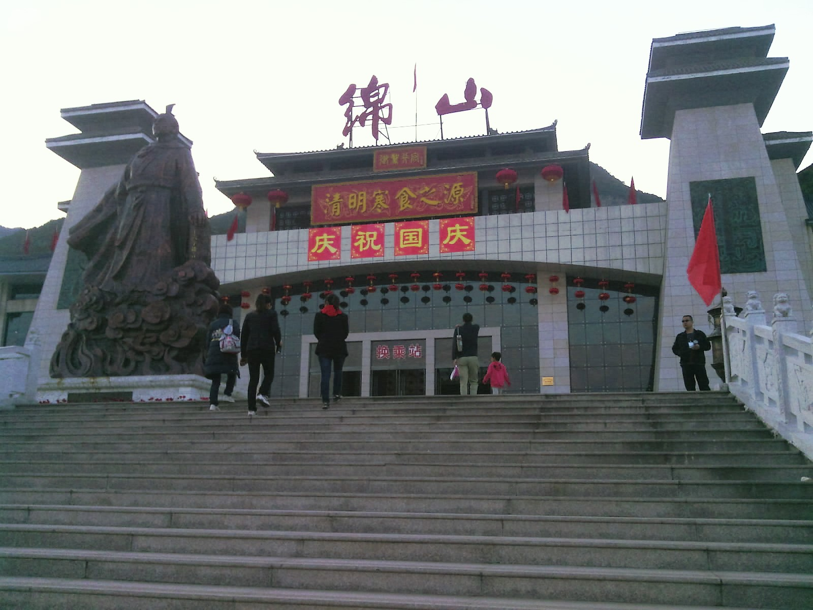 The entrance gate to the Mian Mountain Scenic Area in Jiexiu, Shanxi, China.